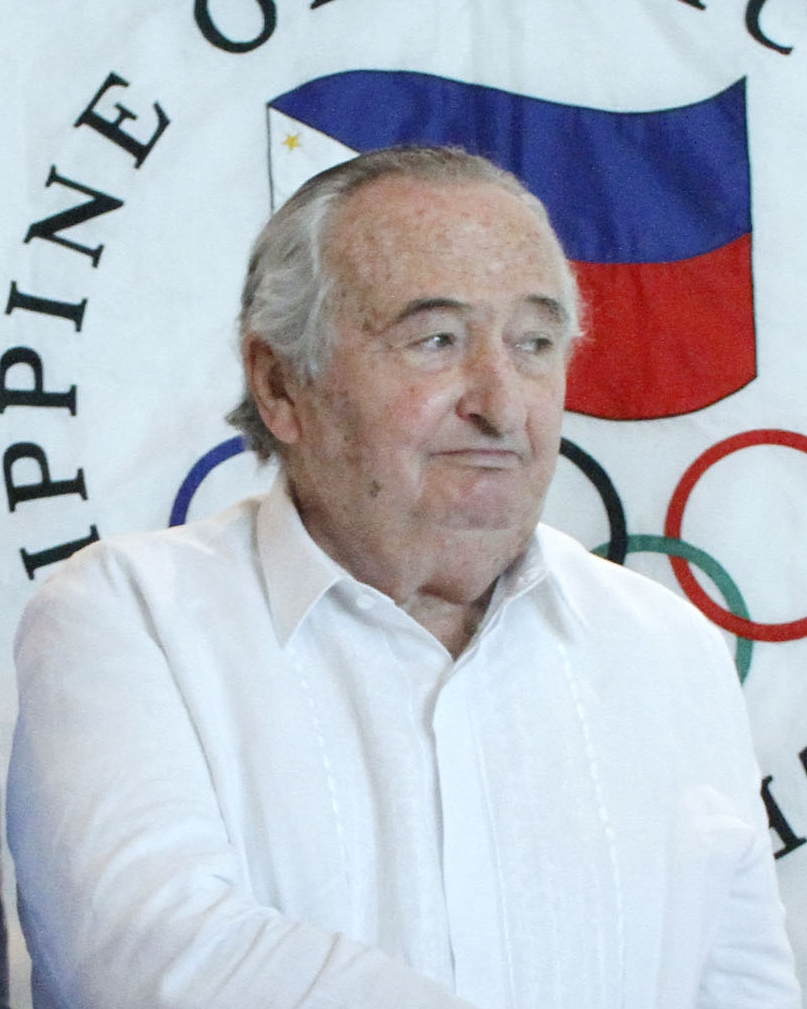 Francisco Elizalde in February 23, 2018